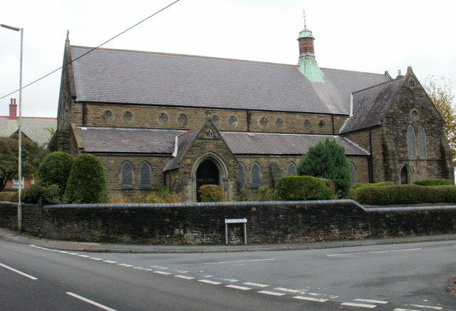 St Hilda's Church , Griffithstown, Pontypool. The view from the southwest. The church is on the corner of Sunnybank Road and Kemys Street. 1577394 for the view from the southeast.